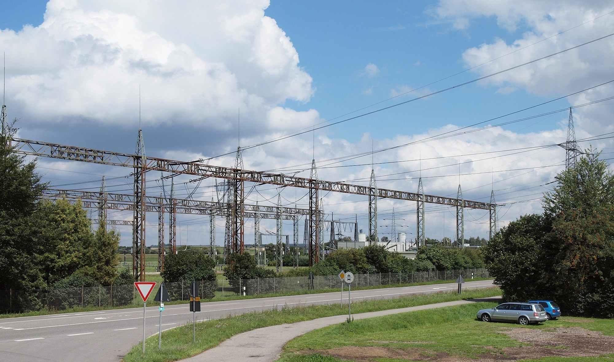 380 kV substation in Herbertingen, Germany